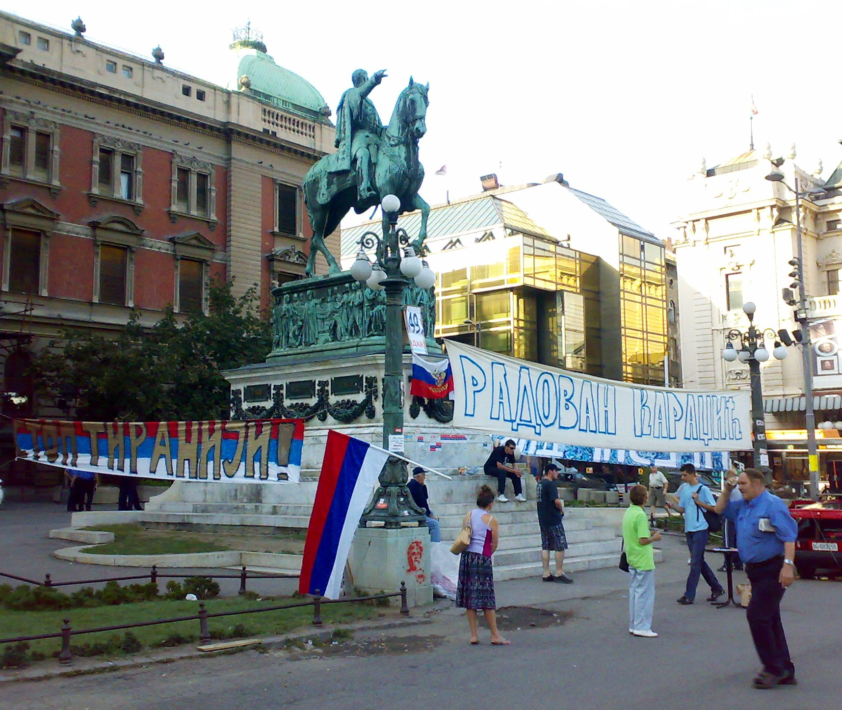 Trg republike, or "Republic Square", in the central part of Beograd, Serbia. Citizens protesting against the detainment of War criminal Radovan Karadzic, who had 49 days earlier been shipped off to ICTFY in the Hague. The protesters vaiwe the flag of Venezuela, honouring that country for being among those not having yet acknowledged the independence of Kosovo.